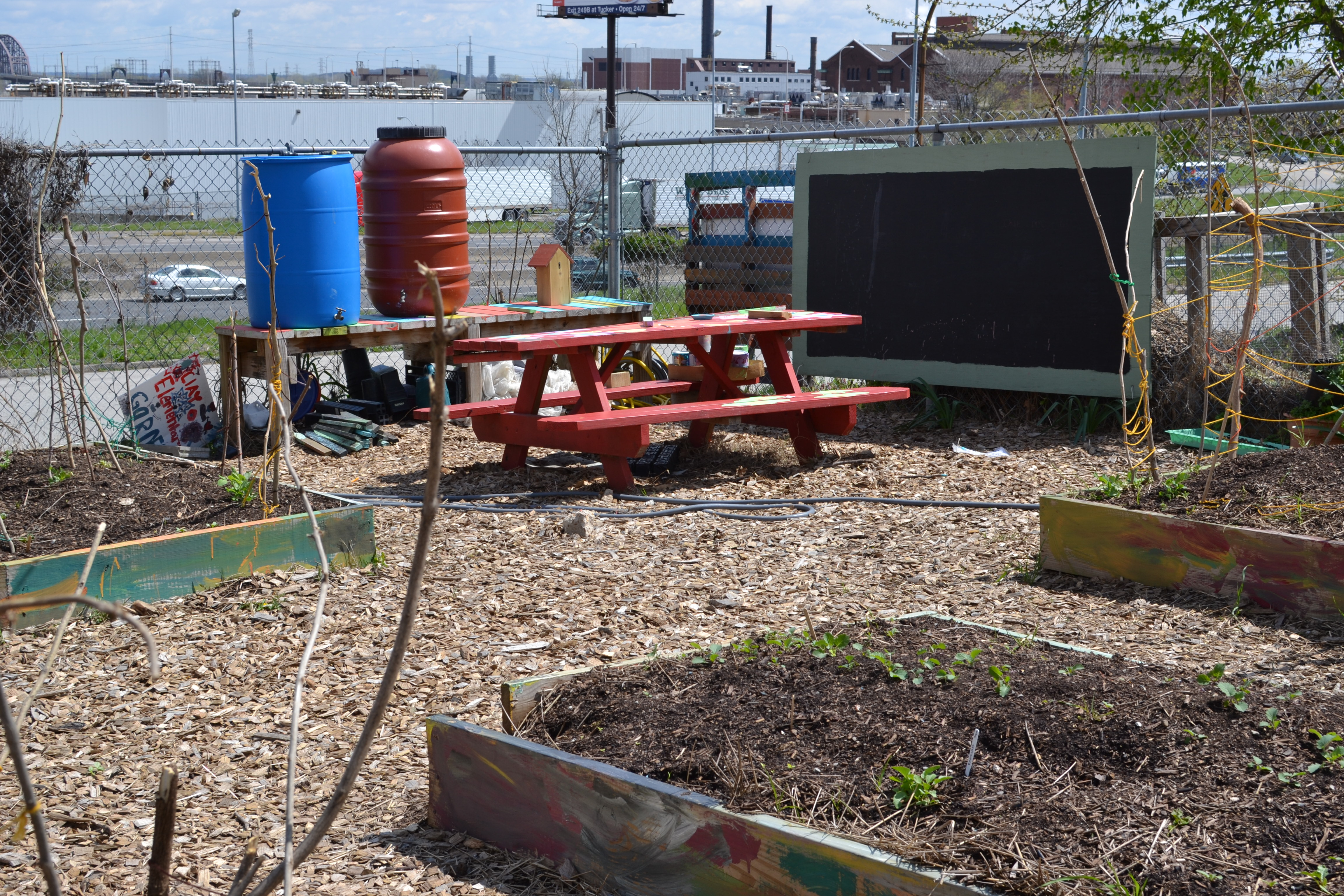 Clay Elementary School Garden in St. Louis, MO. This school garden serves as an outdoor classroom for students of all ages, and is one of the flagships of the Gateway Greening School Garden program.